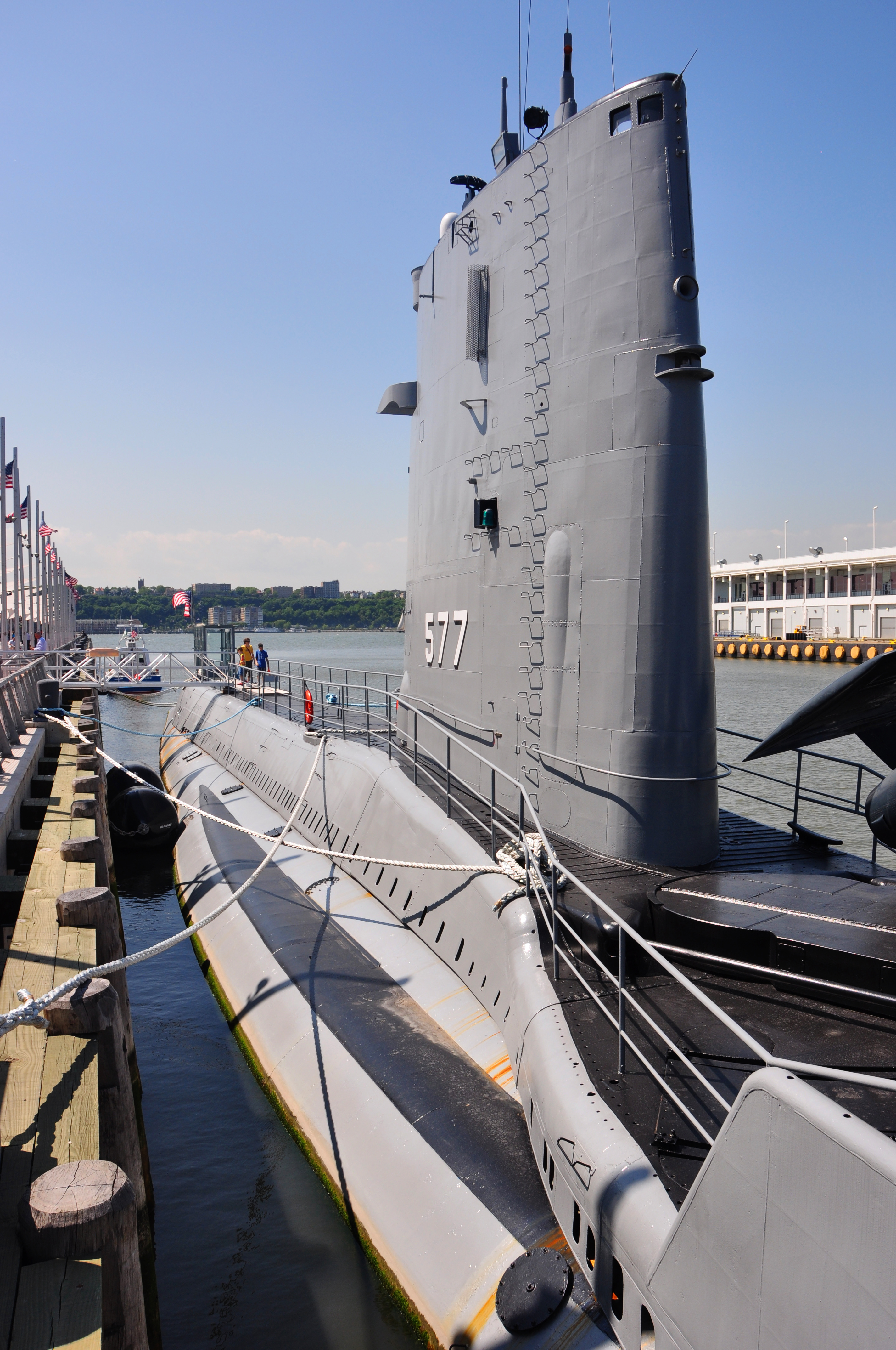 USS Growler submarine, Intrepid aircraft carrier museum, Manhattan, New York City, 2010